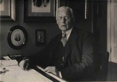 Ulrik Adolph Plesner (1862-1933), Danish architect